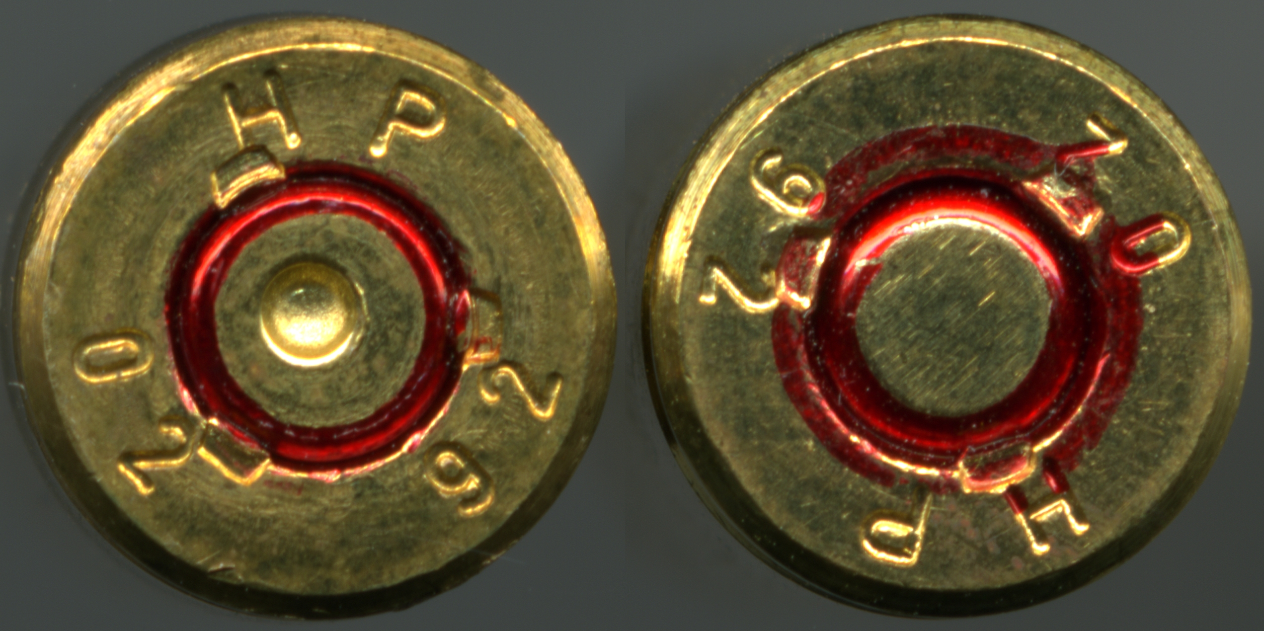 The back of a fired (left) and not fired (right) 5.56 x 45mm NATO cartridge